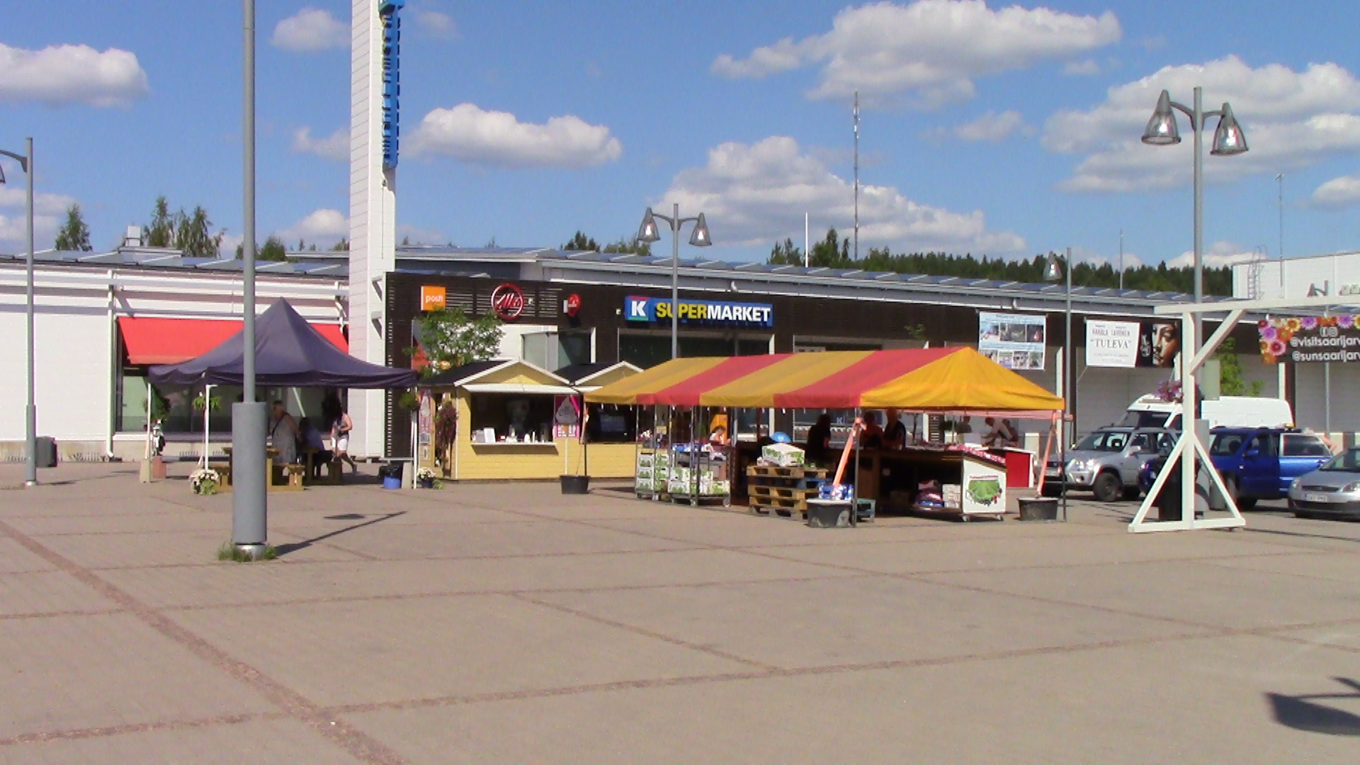 Saarijärvi square as seen from the southern side of it.